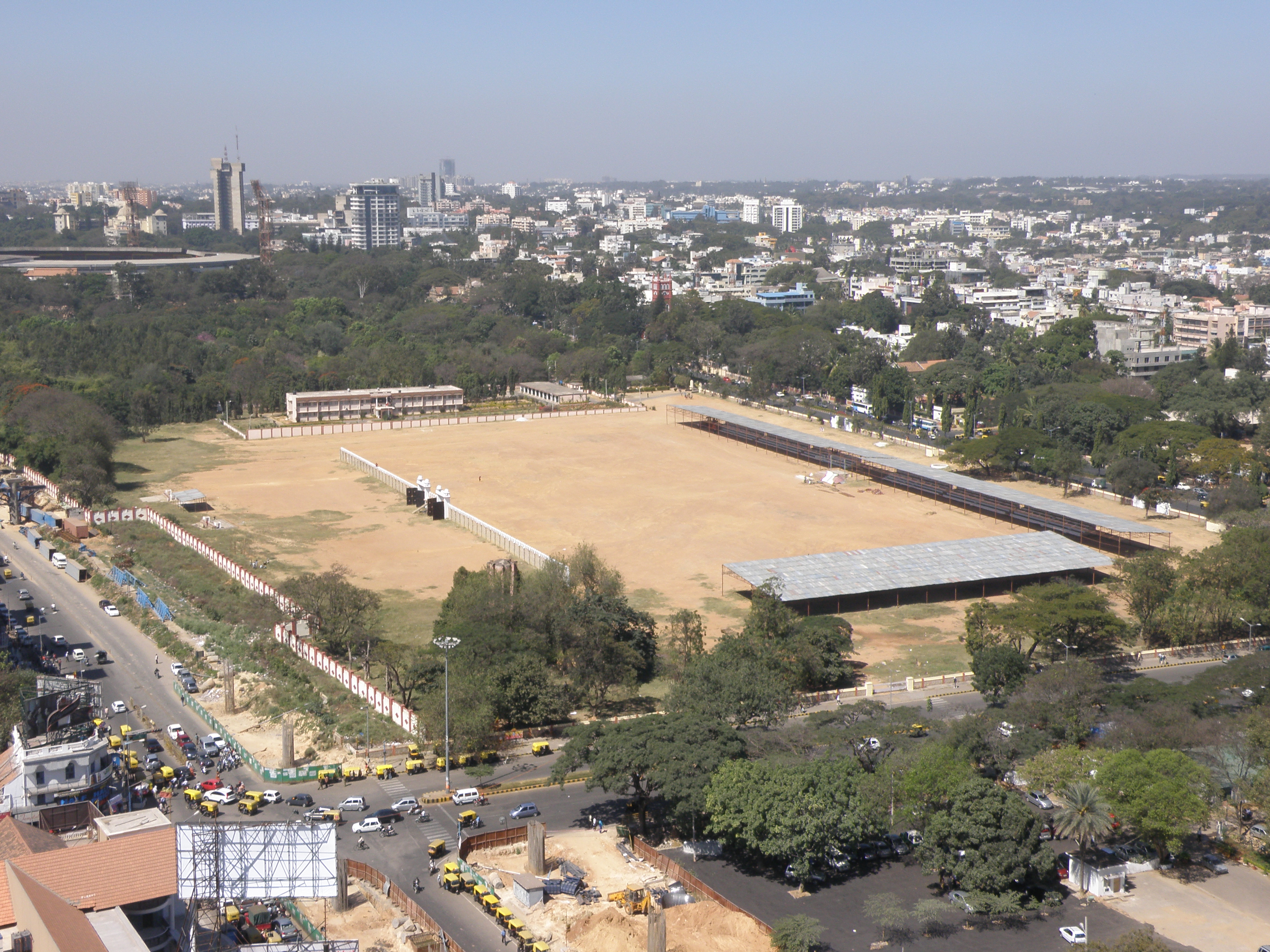 Manekshaw Parade Grounds, Bangalore.